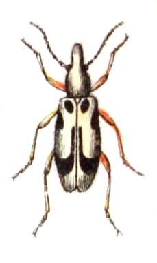 Notoxus monoceros, from Calwer's Käferbuch, Table 48, Picture 14. Taxonomy was updated to 2008, using mostly the sites Fauna Europaea and BioLib. Please contact Sarefo if the determination is wrong!